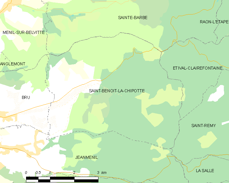 Map of French municipality Saint-Benoît-la-Chipotte